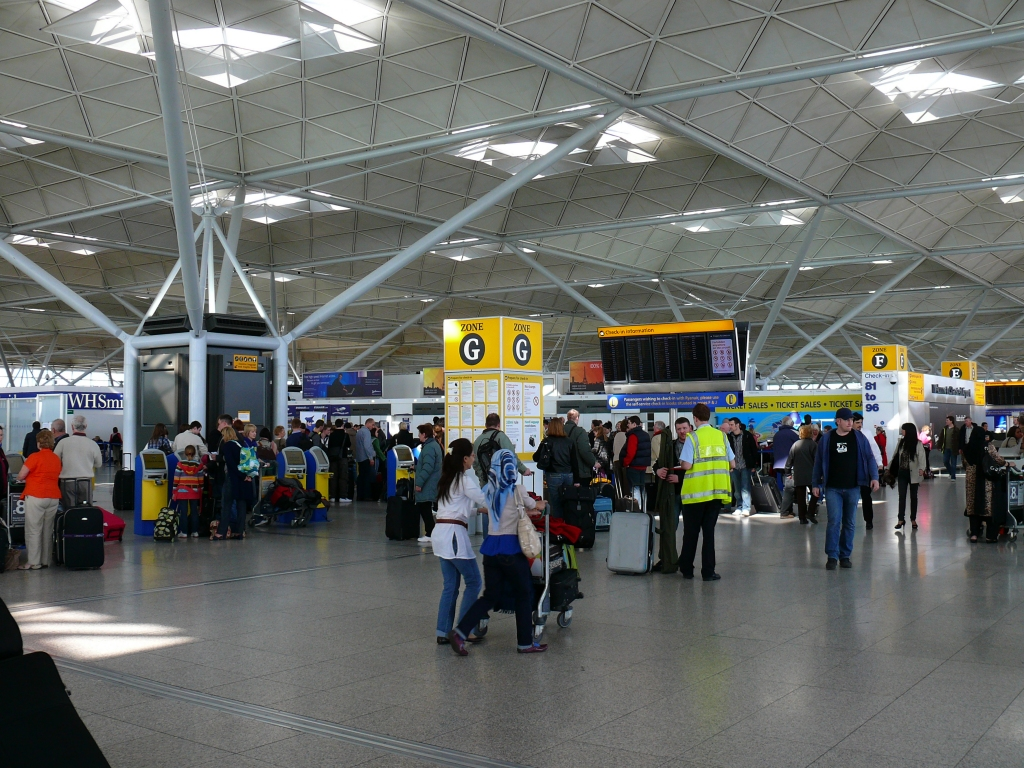 London Stansted Airport Terminal Building, Stansted Airport